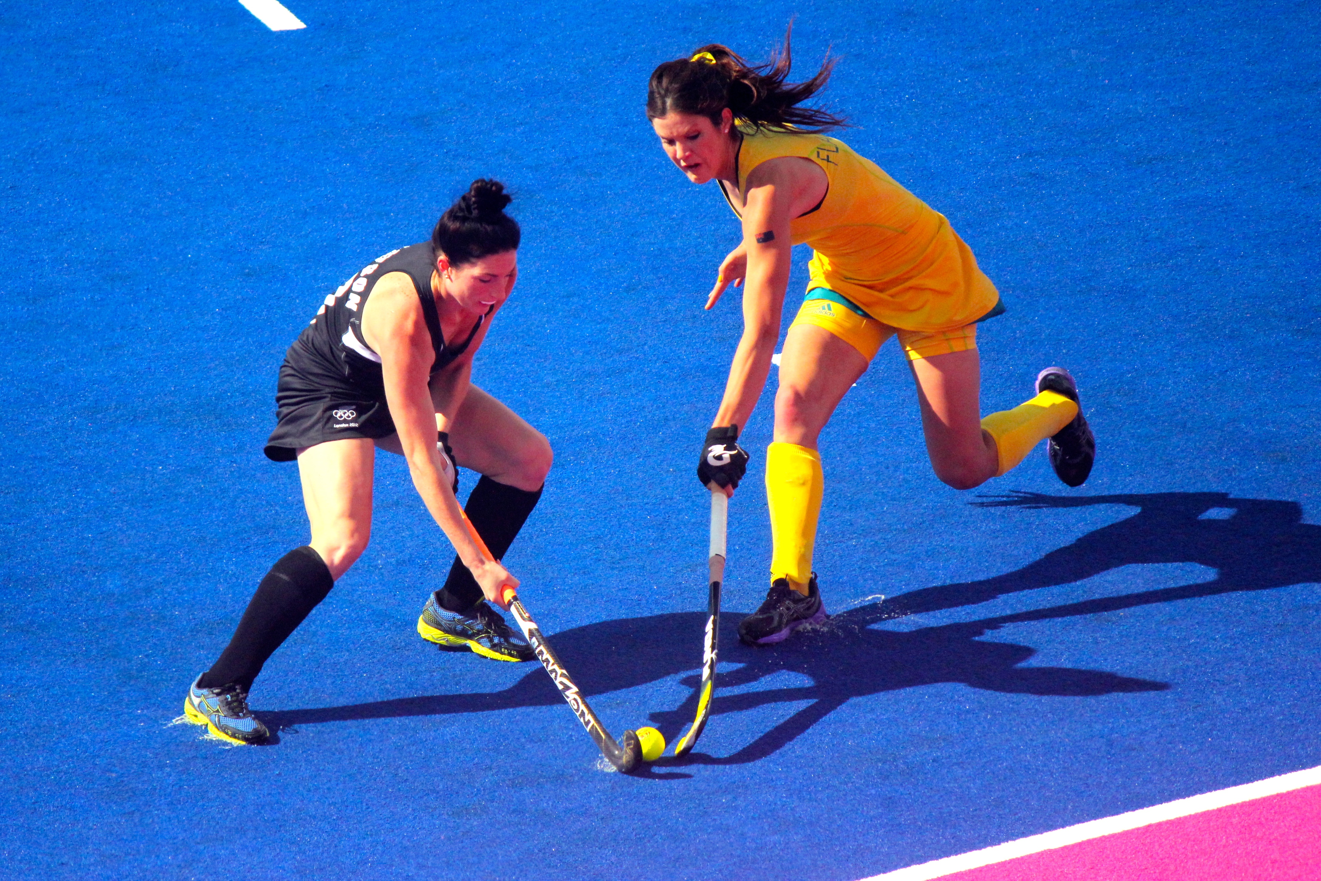 Anna Flanagan (right, Australia) and Cathryn Finlayson (New Zealand)